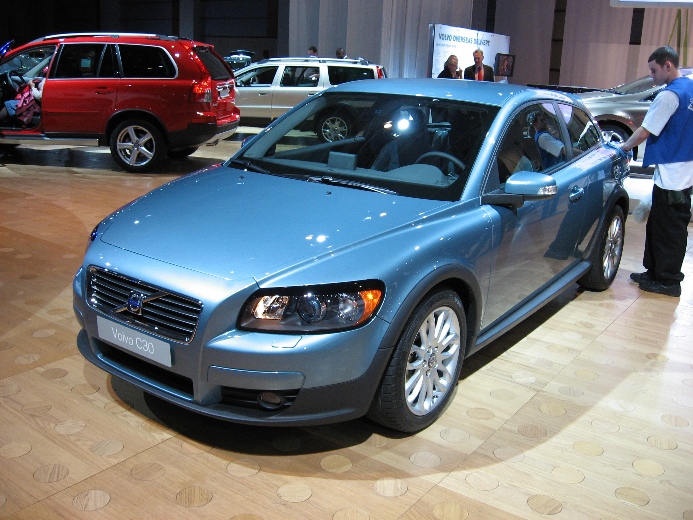 Volvo C30 photographed at the Washington Auto Show